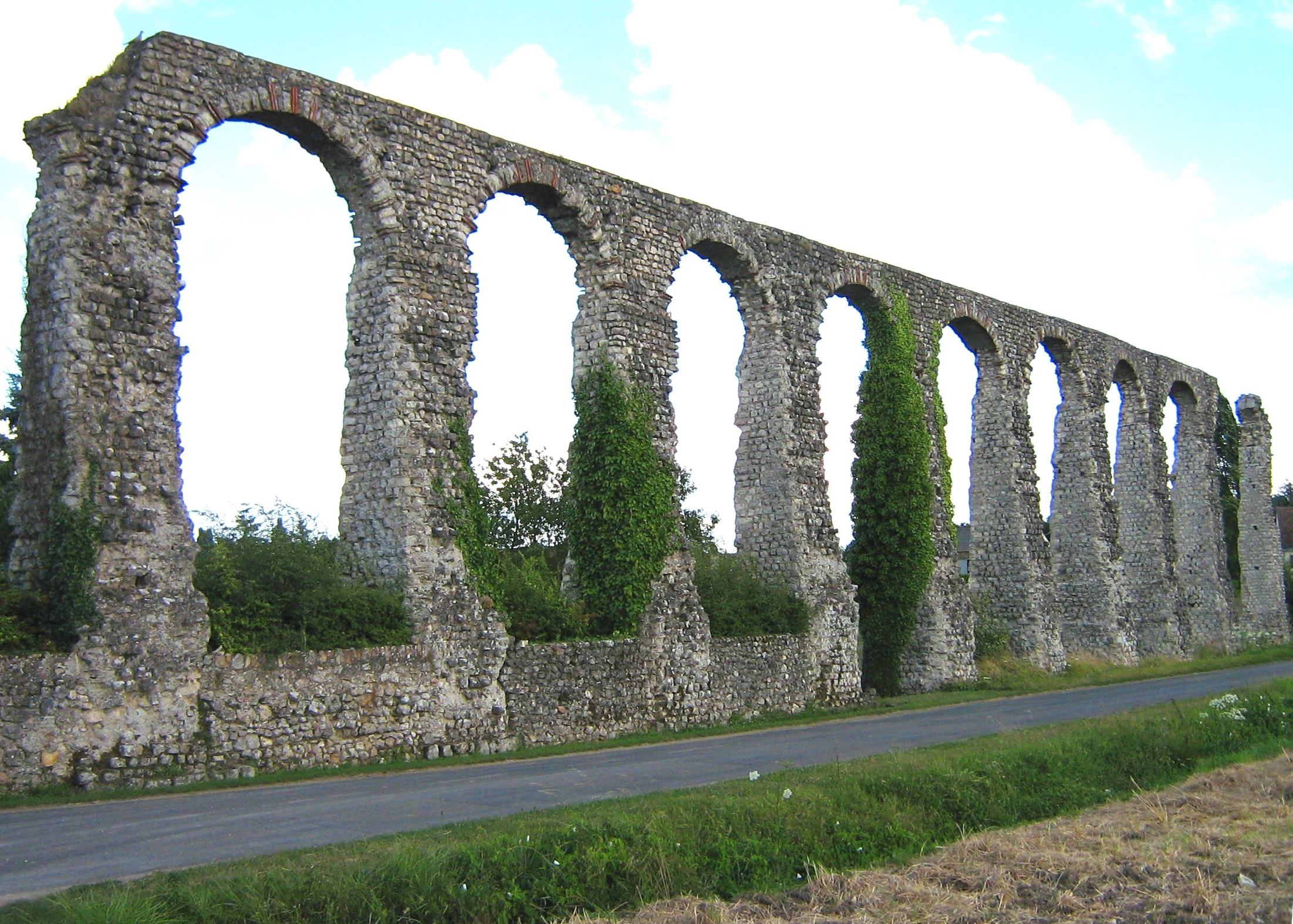 The Roman Aqueduct at Luynes photographed from the road passing by it on 7th August, 2008 by Clifton Jones.